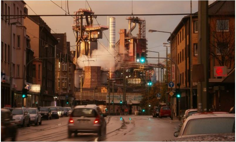 View of the Thyssen-Krupp steelworks from Friedrich-Ebert-Strasse in Beeck.